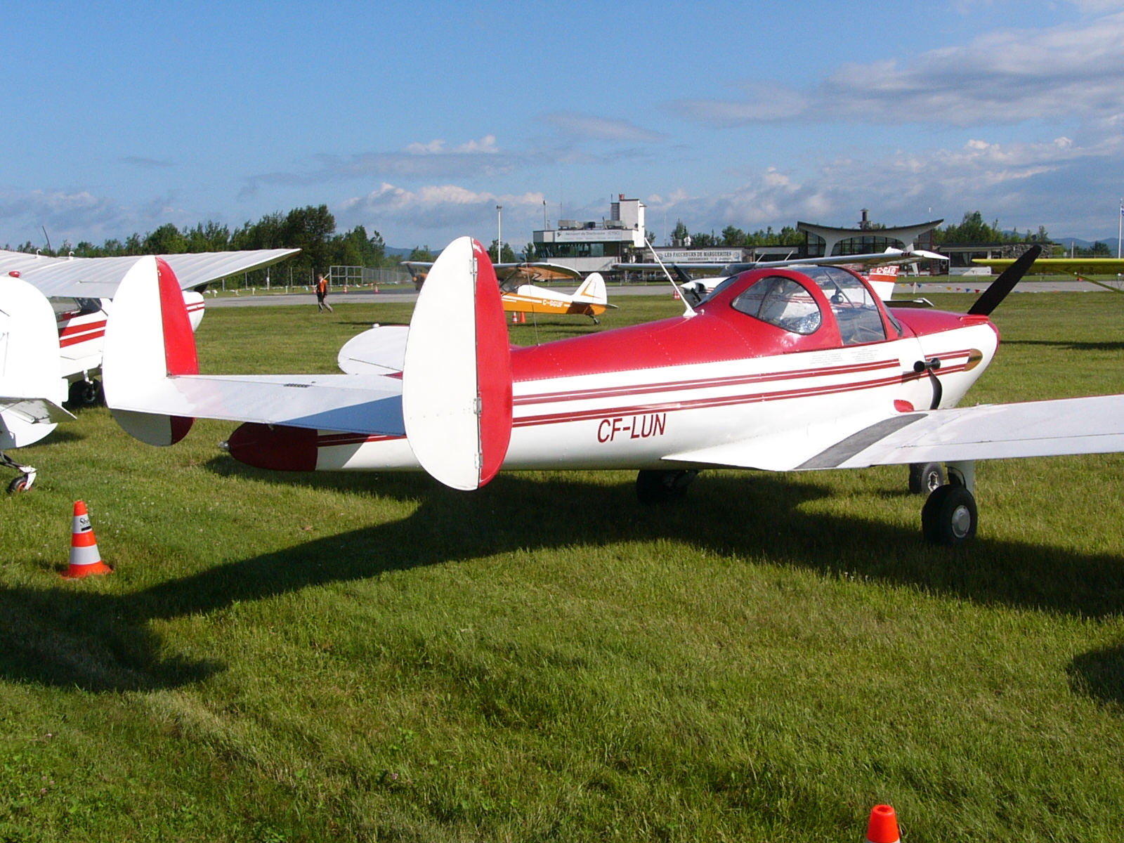 an Erco 415 Ercoupe at the Les Faucheurs de Marguerites, Sherbrooke, Quebec, Canada